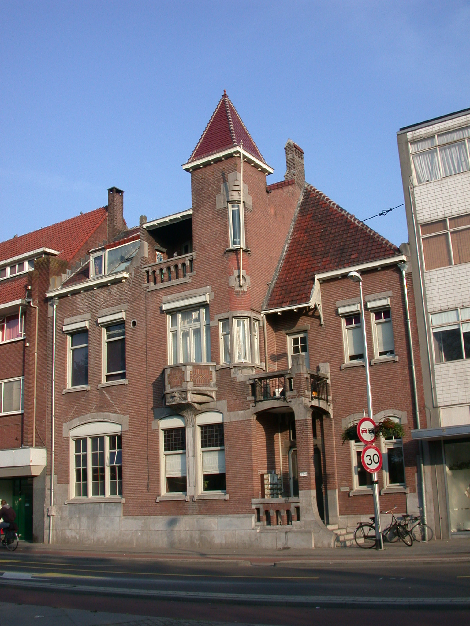 House designed by architect Jan van der Valk, Zomerstraat, Tilburg